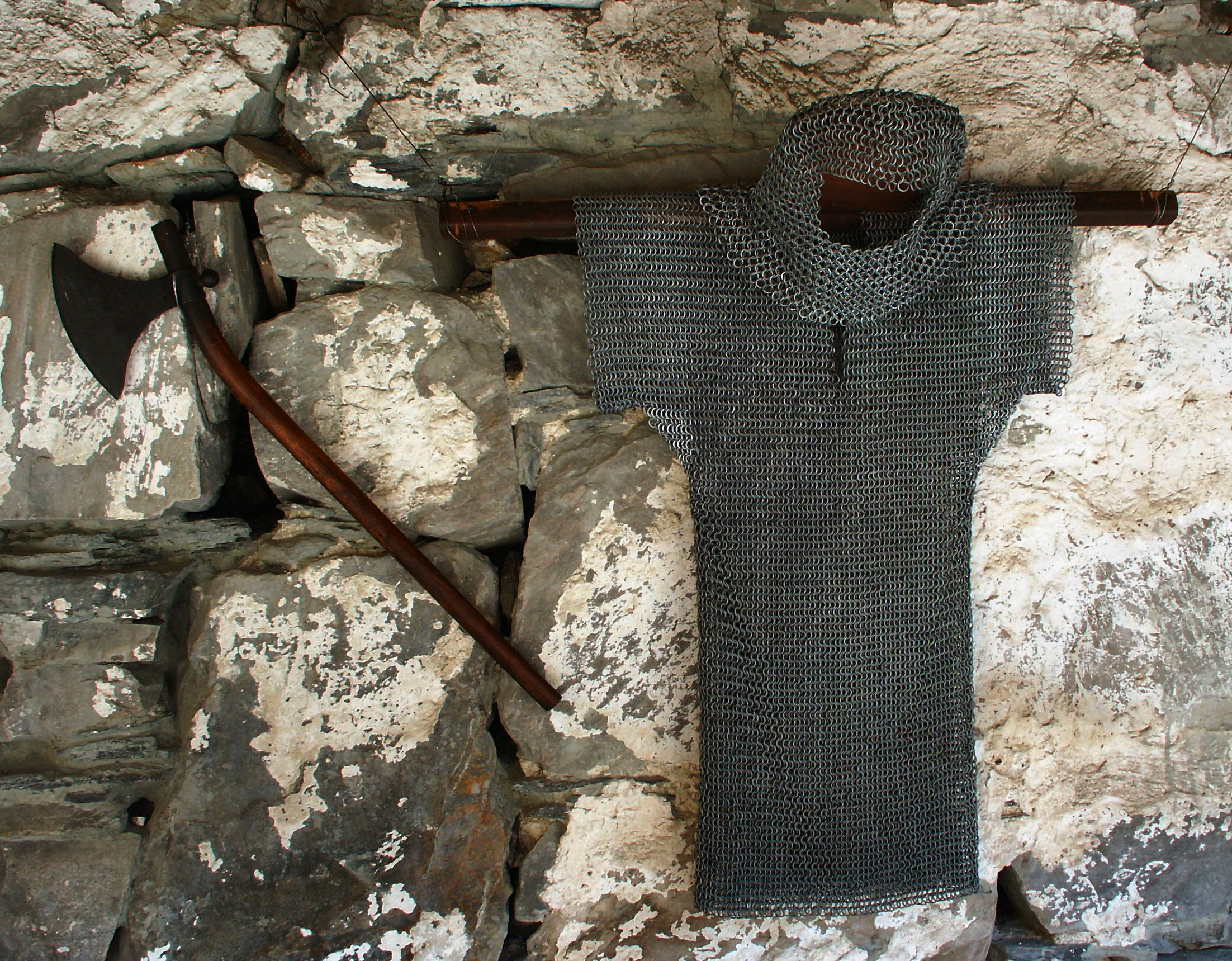 Agatunet, collective farmyard, Sørfjorden in Hardanger, Ullensvang municipality, Hordaland county, Norway.